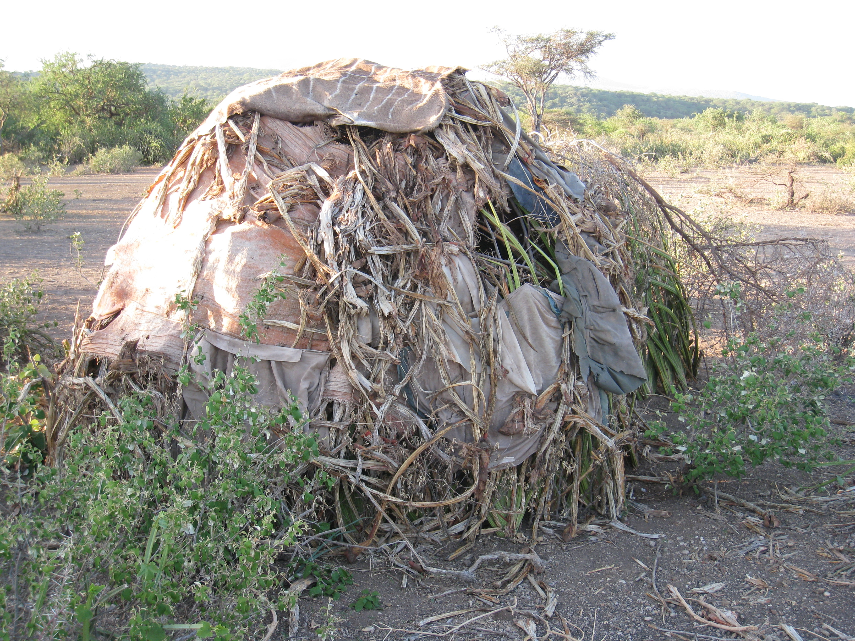 Hadzabe Hut, Tanzania